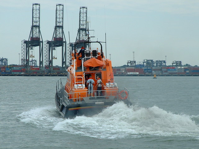 On a shout The lifeboat off on a shout; the crew came racing to the station and then they were off, Harwich Essex.